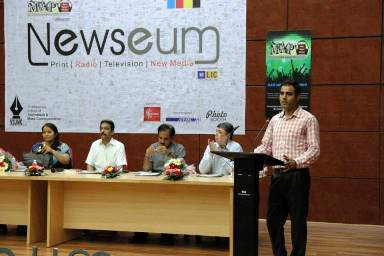 Radhe Krishan delivering vote of thanks during a panel discussion held at VIPS, New Delhi in September 2013